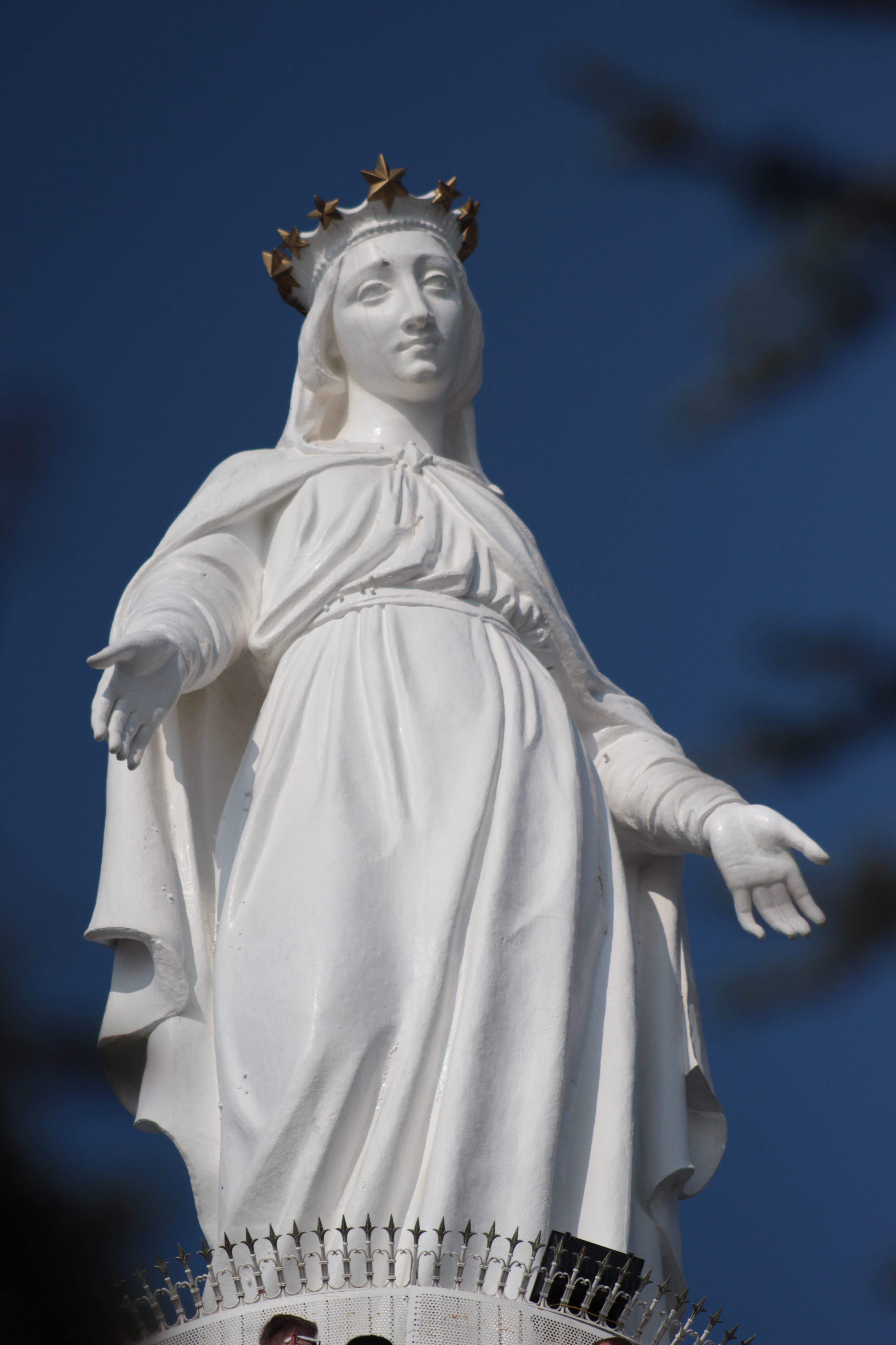 Our Lady of Lebanon Harissa